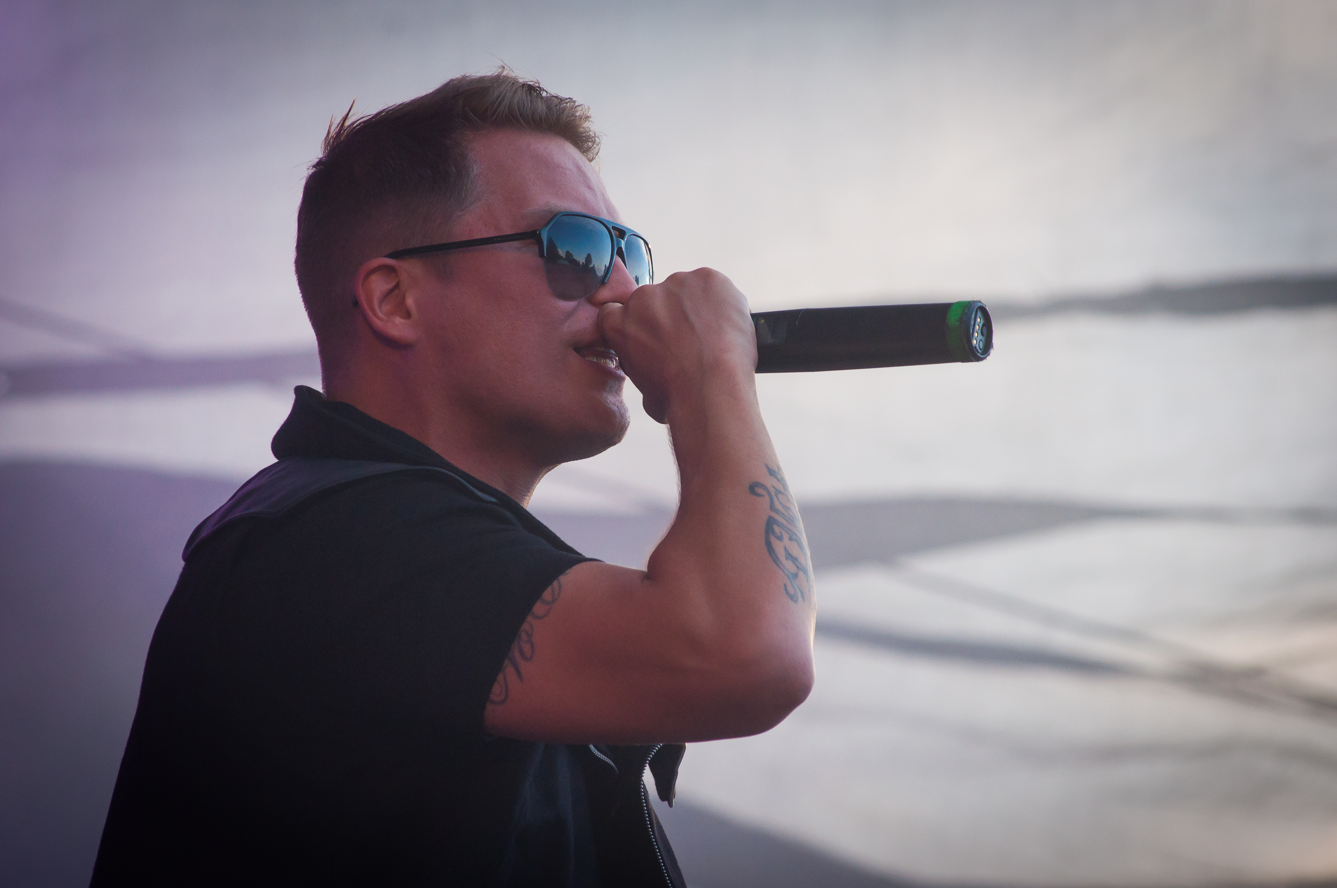 Finnish rapper and vocalist Cheek performing at the 2014 Rakuuna Rock festival in Lappeenranta, Finland.